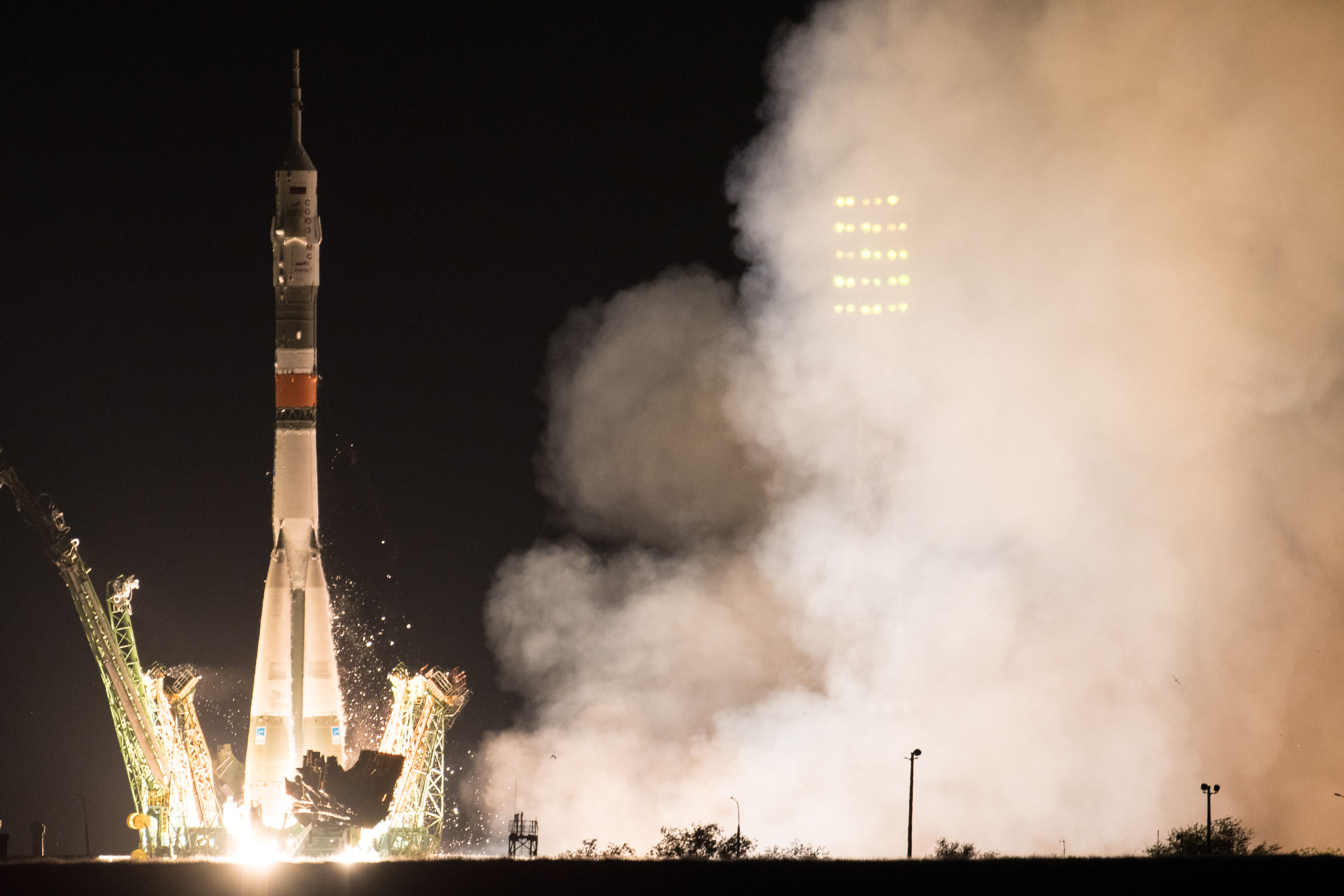 The Soyuz MS-13 rocket is launched with Expedition 60 Soyuz Commander Alexander Skvortsov of Roscosmos, flight engineer Drew Morgan of NASA, and flight engineer Luca Parmitano of ESA (European Space Agency), Saturday, July 20, 2019 at the Baikonur Cosmodrome in Kazakhstan. Skvortsov, Morgan, and Parmitano will join fellow Expedition 60 crew members Commander Alexey Ovchinin of Roscosmos and NASA flight engineers Nick Hague and Christina Koch, who have been aboard the International Space Station since March.